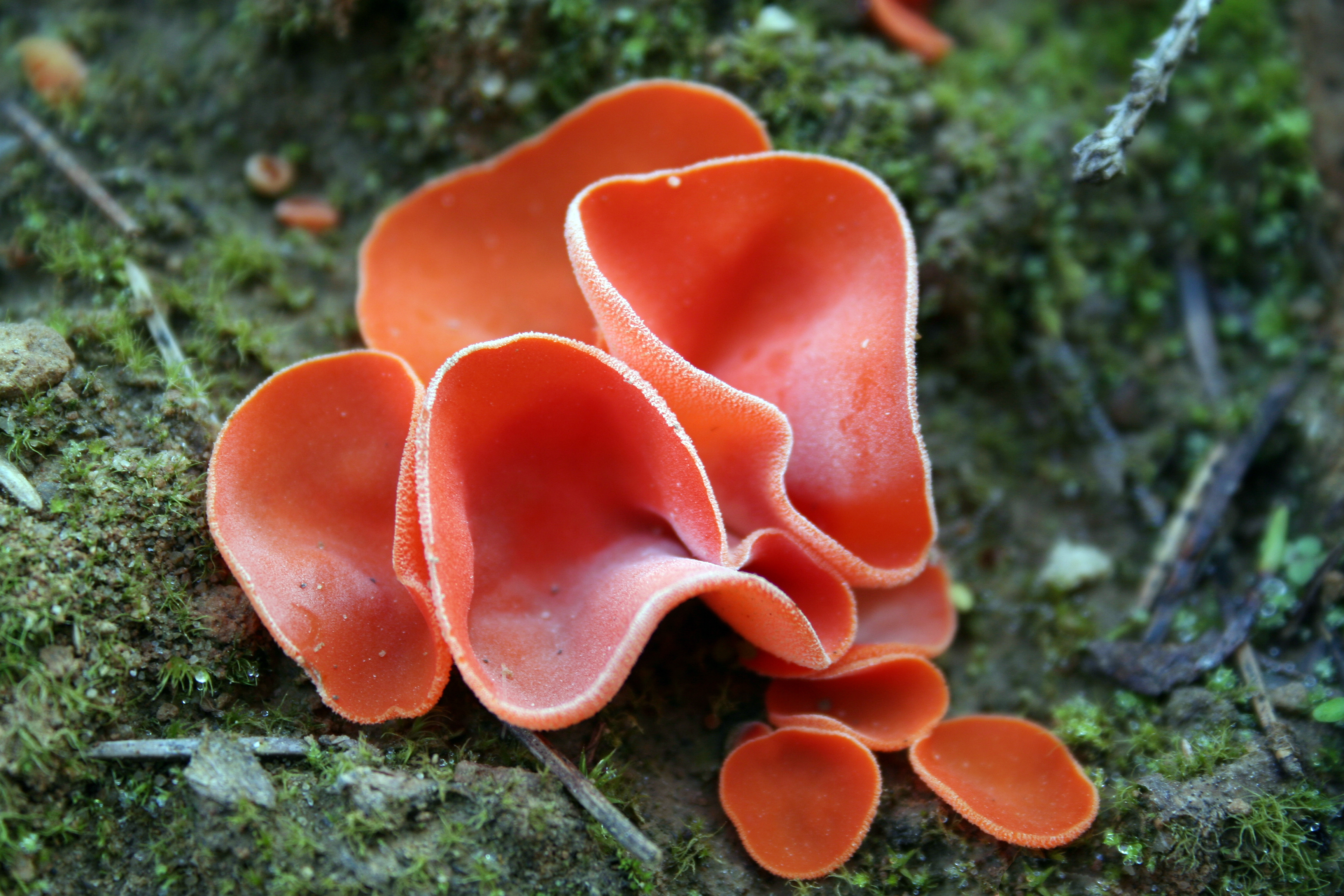 Orange Peel Fungus, Aleuria aurantia, Family: Pyronemataceae, Location: Southern Germany, Ulm